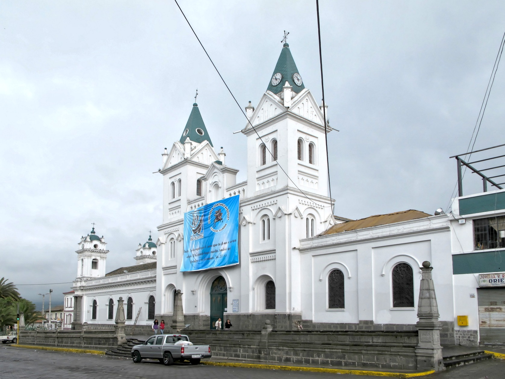 Machachi, Santiago Apostol, parish Church